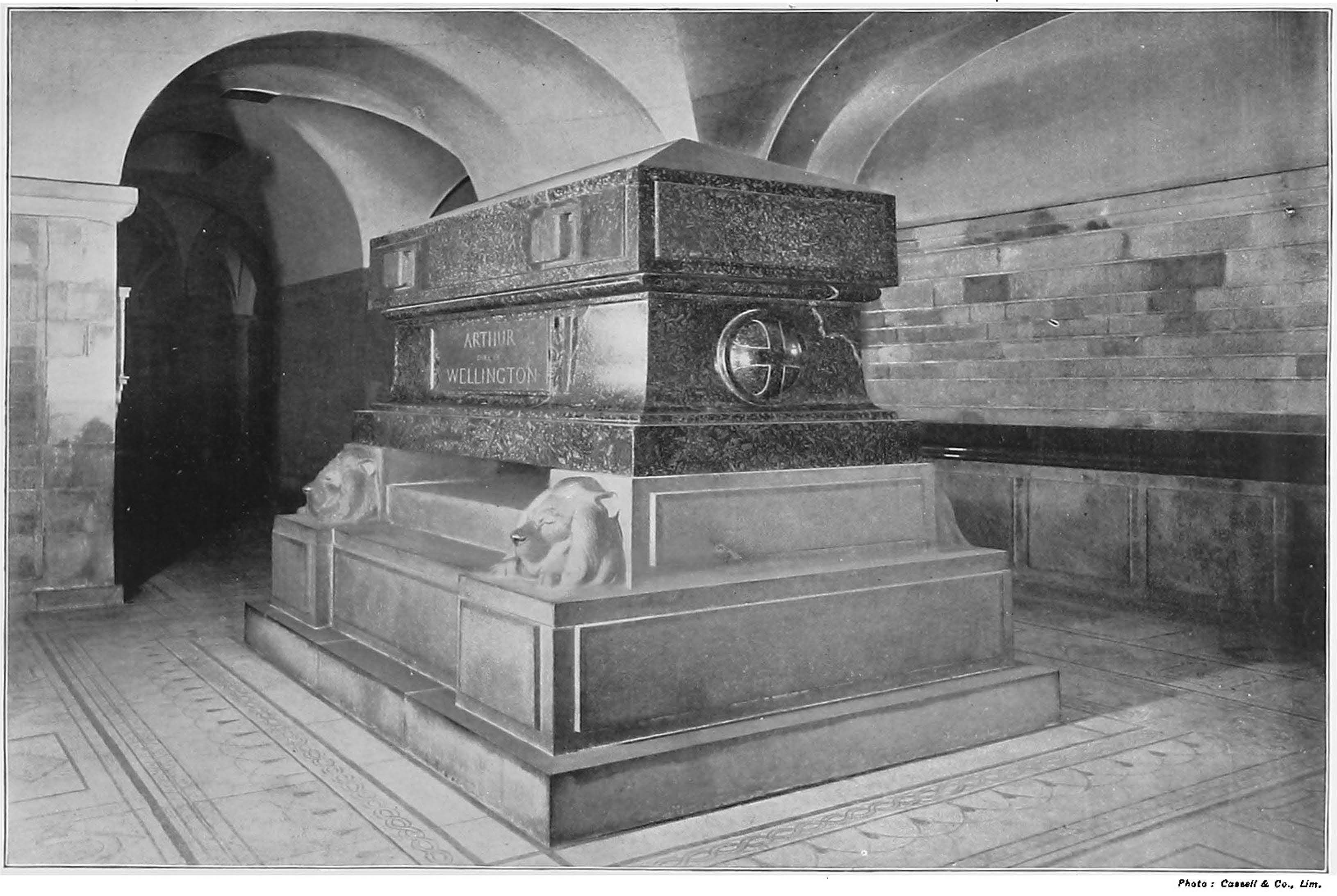 Tomb in St Paul's Cathedral of Arthur Wellesley, 1st Duke of Wellington